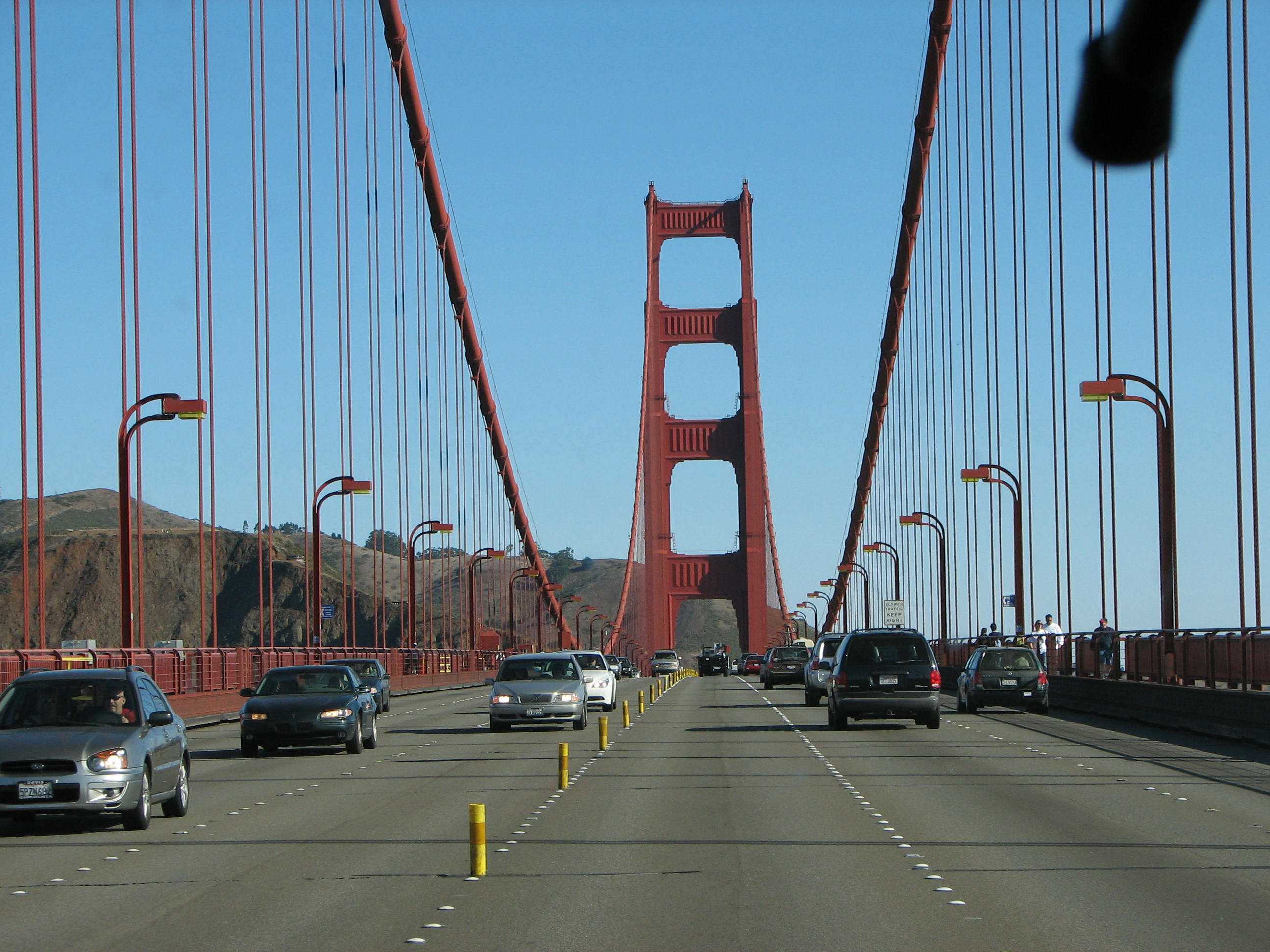 Golden Gate Bridge, San Francisco, California, USA